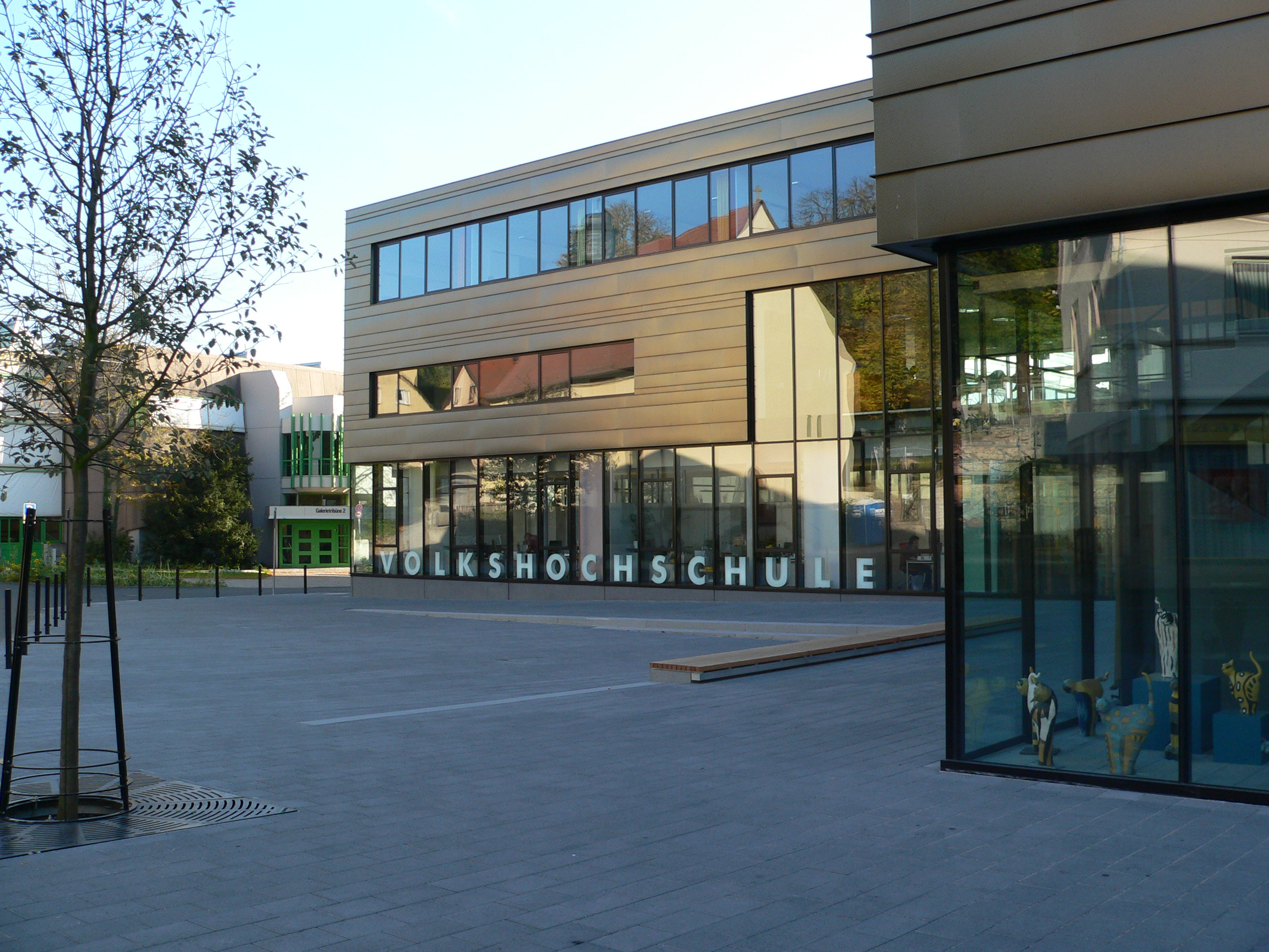 Adult Education Center of the City Neckarsulm